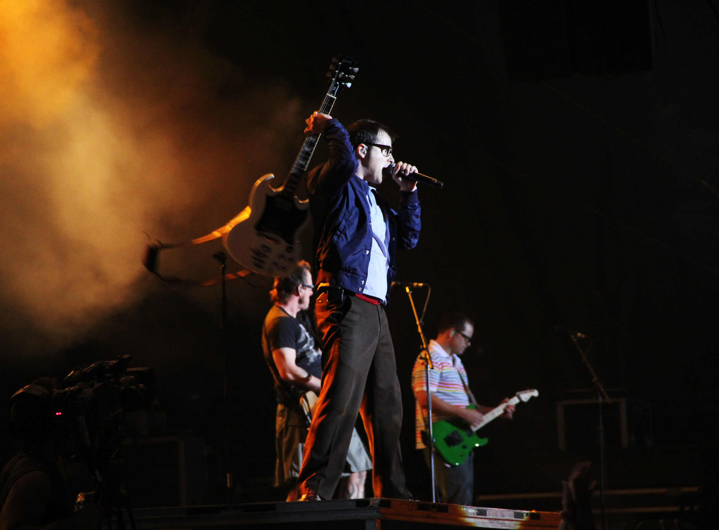 Rivers Cuomo (front), Scott Shriner (left) and Patrick Wilson (right) of the band Weezer performs at Osheaga Festival in Montreal, Québec, Canada, on 1 August 2010.